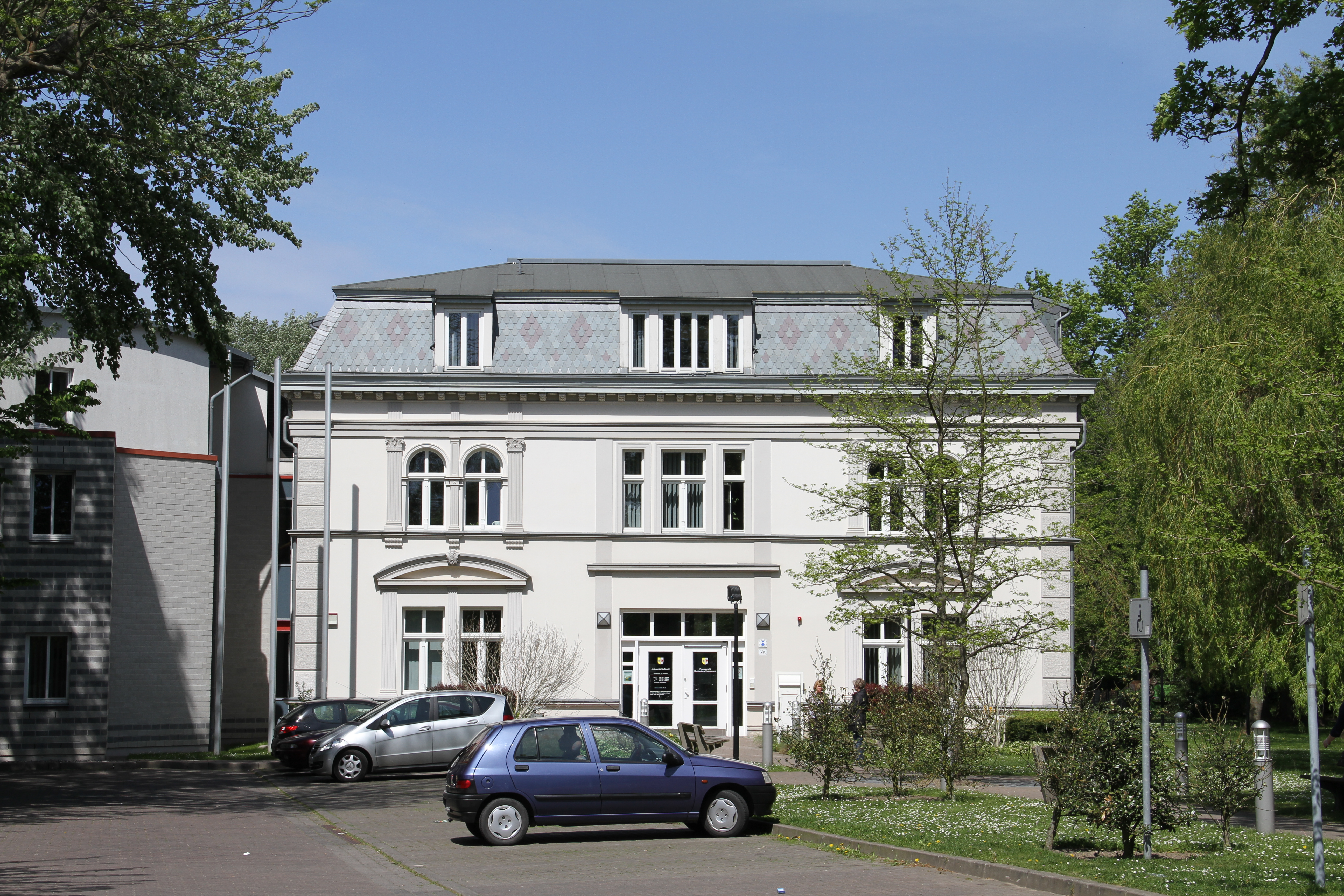 Amtsgericht (Court) of Greifswald